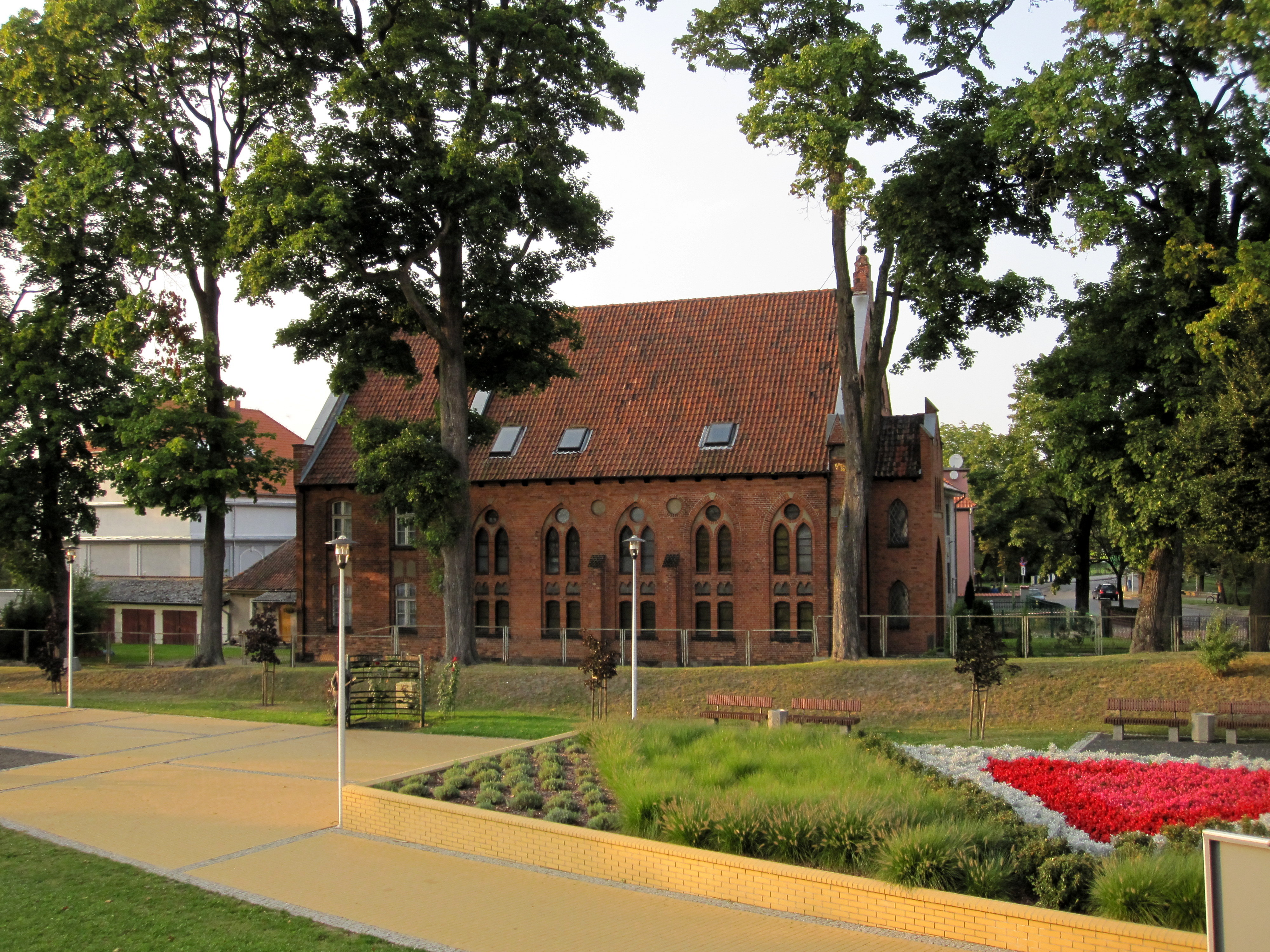 Baptist Church in Szczytno